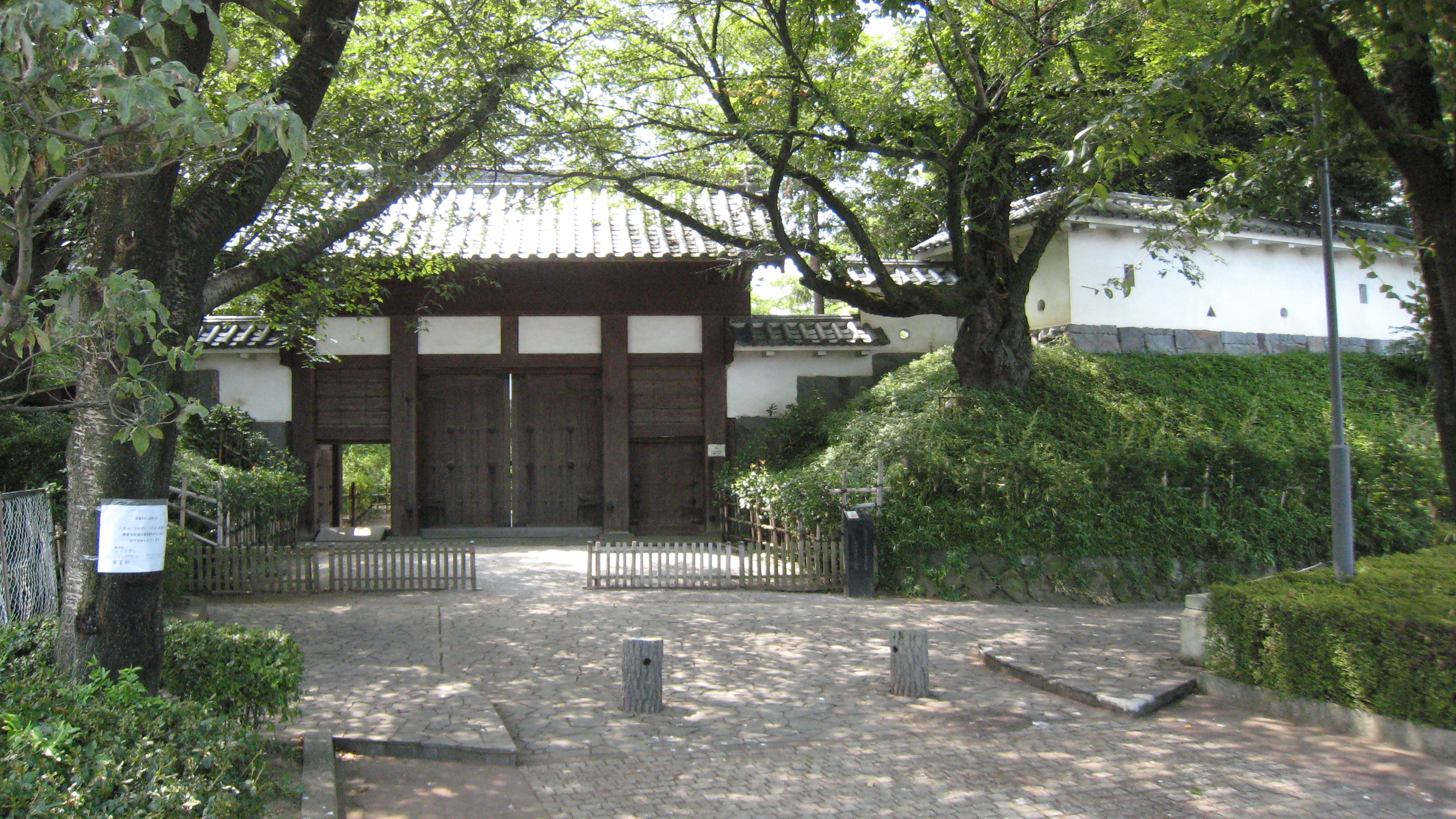 Tatebayashi Castle Kuro-Mon(Black Gate) in Tatebayashi,Gunma prefecture,Japan